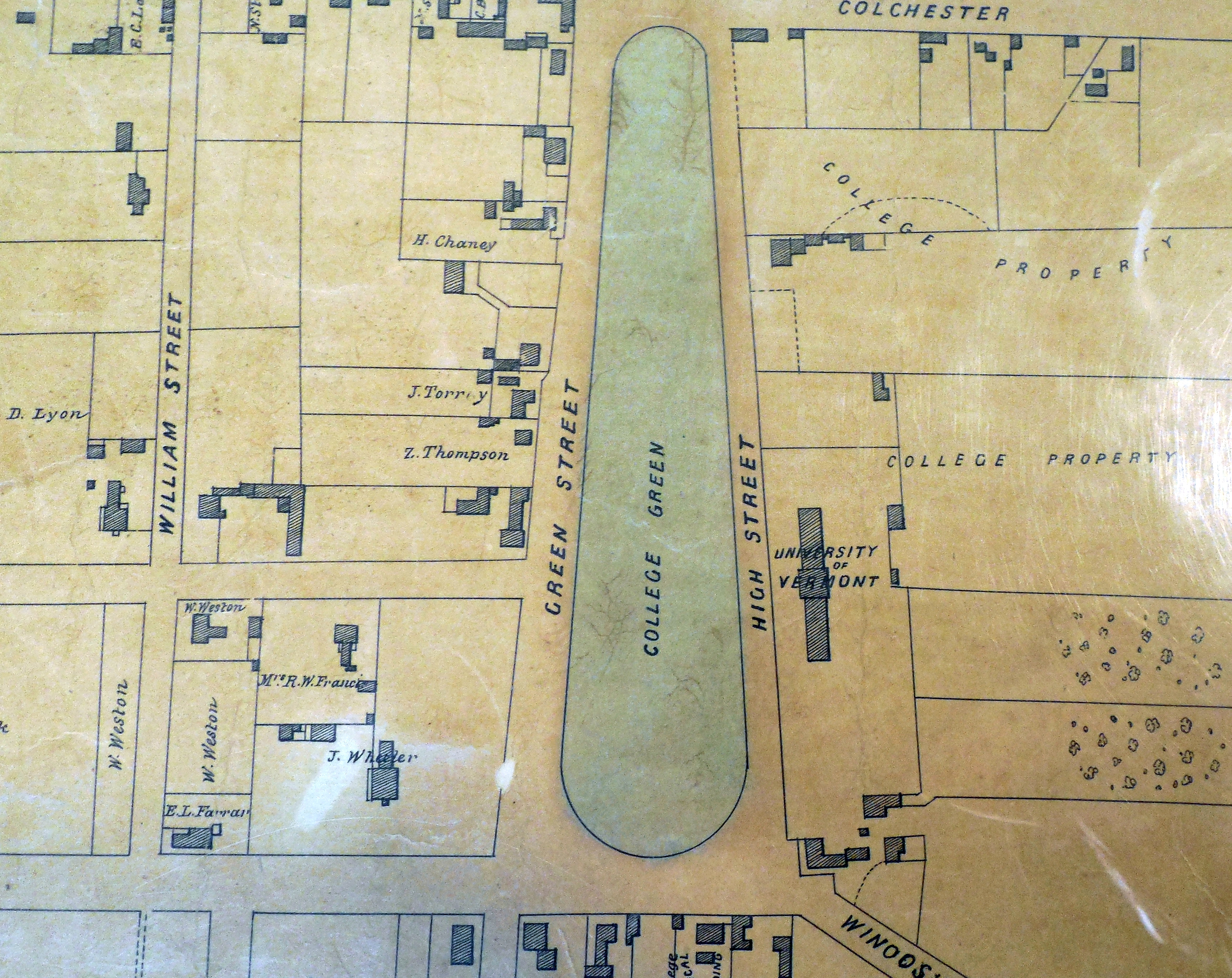 Map of Burlington, Vermont, 1853 (originally published by Presdee & Edwards, New York, N.Y.). A portion of the map indicating the University Green (formerly known as "College Green"). The Main College (right), labeled "University of Vermont" is known today the "Old Mill" building. The "Johnson House", indicated at the corner of High Street (today known as University Place) and the Winooski Turnpike (lower right) has since been relocated on two occasions; Once in 1906 and again in 2005. Today the house is located at 617 Main Street in Burlington.